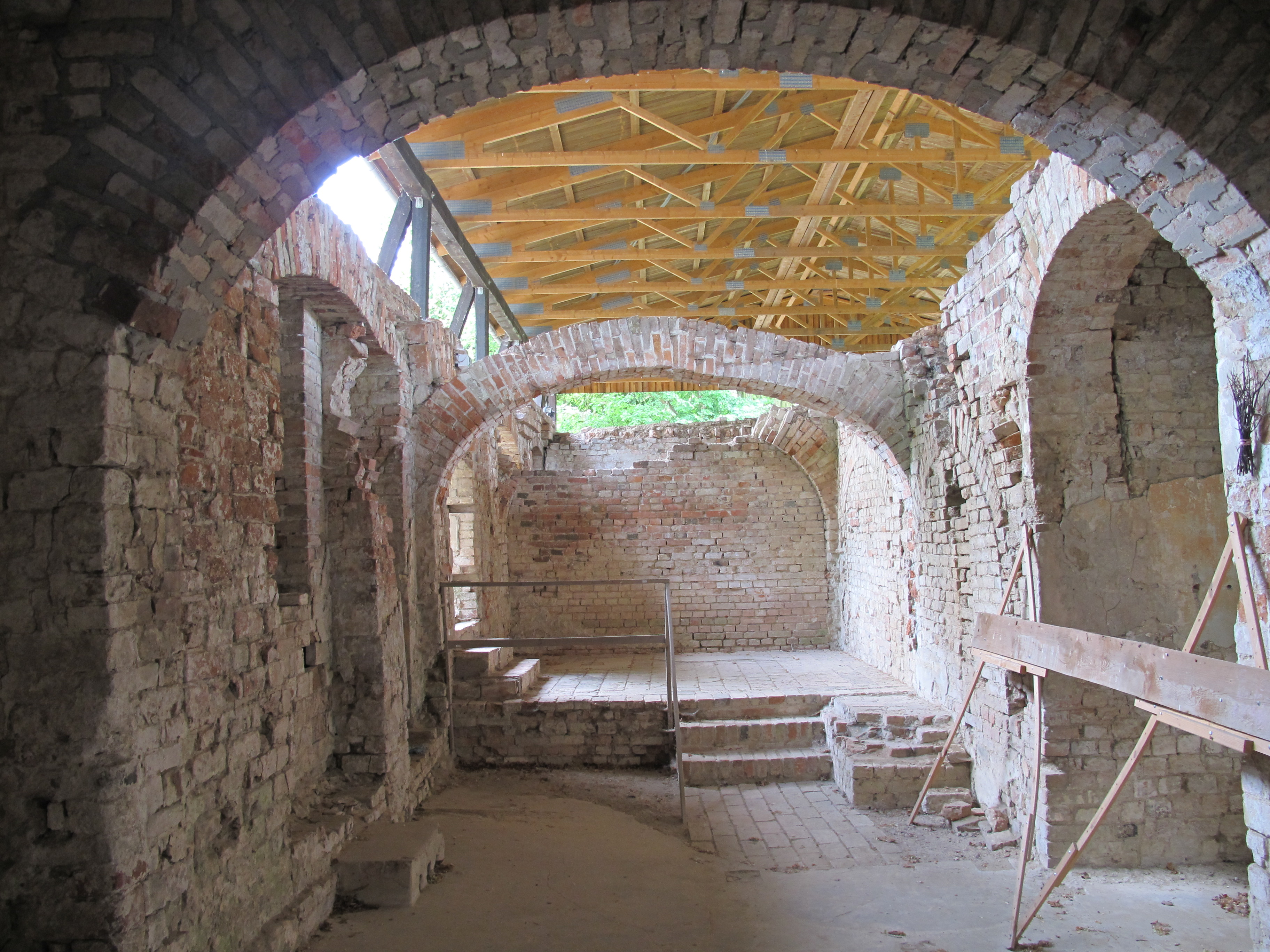 Ruin of Kloster Friedland, Germany. An inner room.